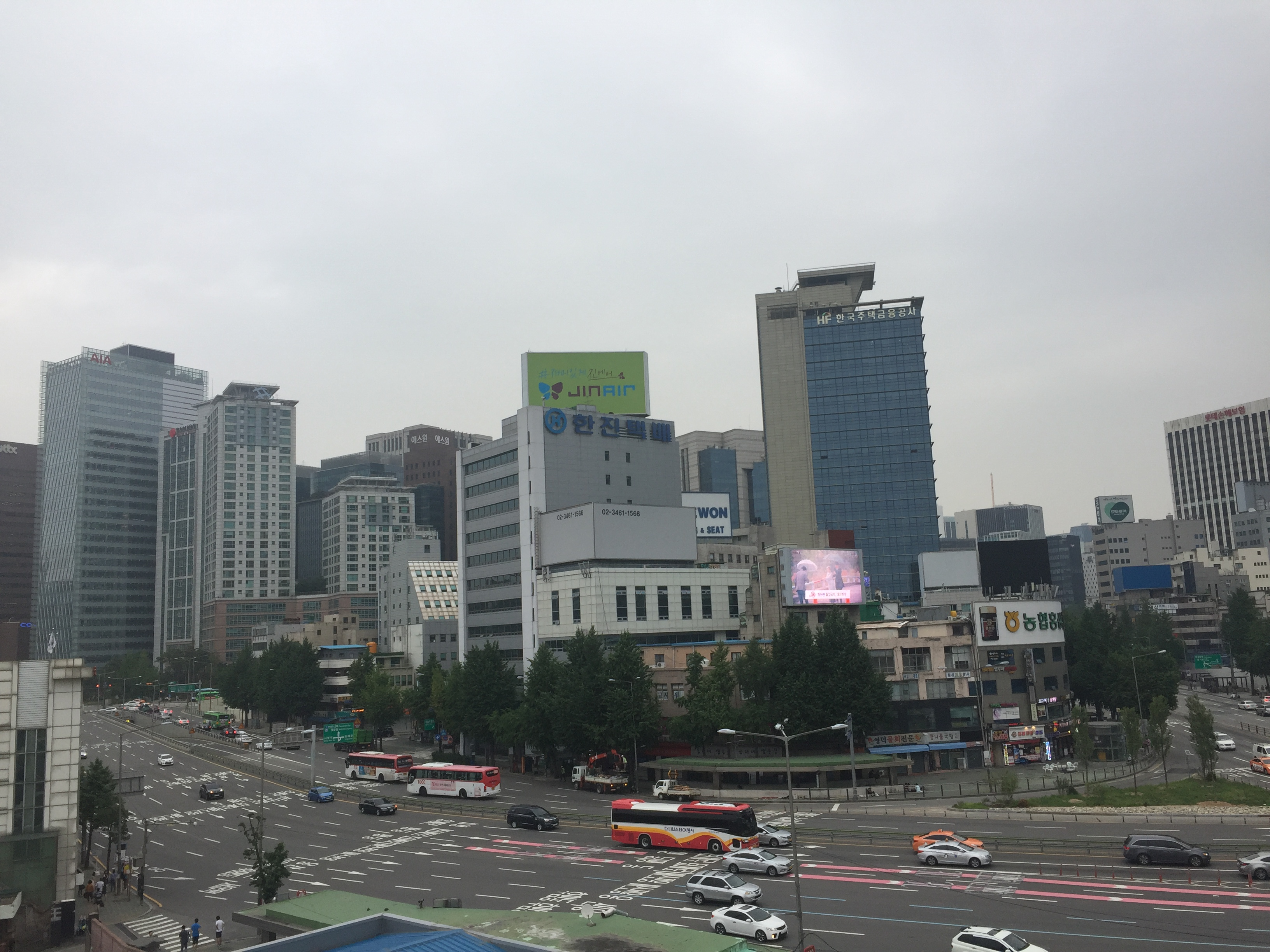 A view near Seoul Station